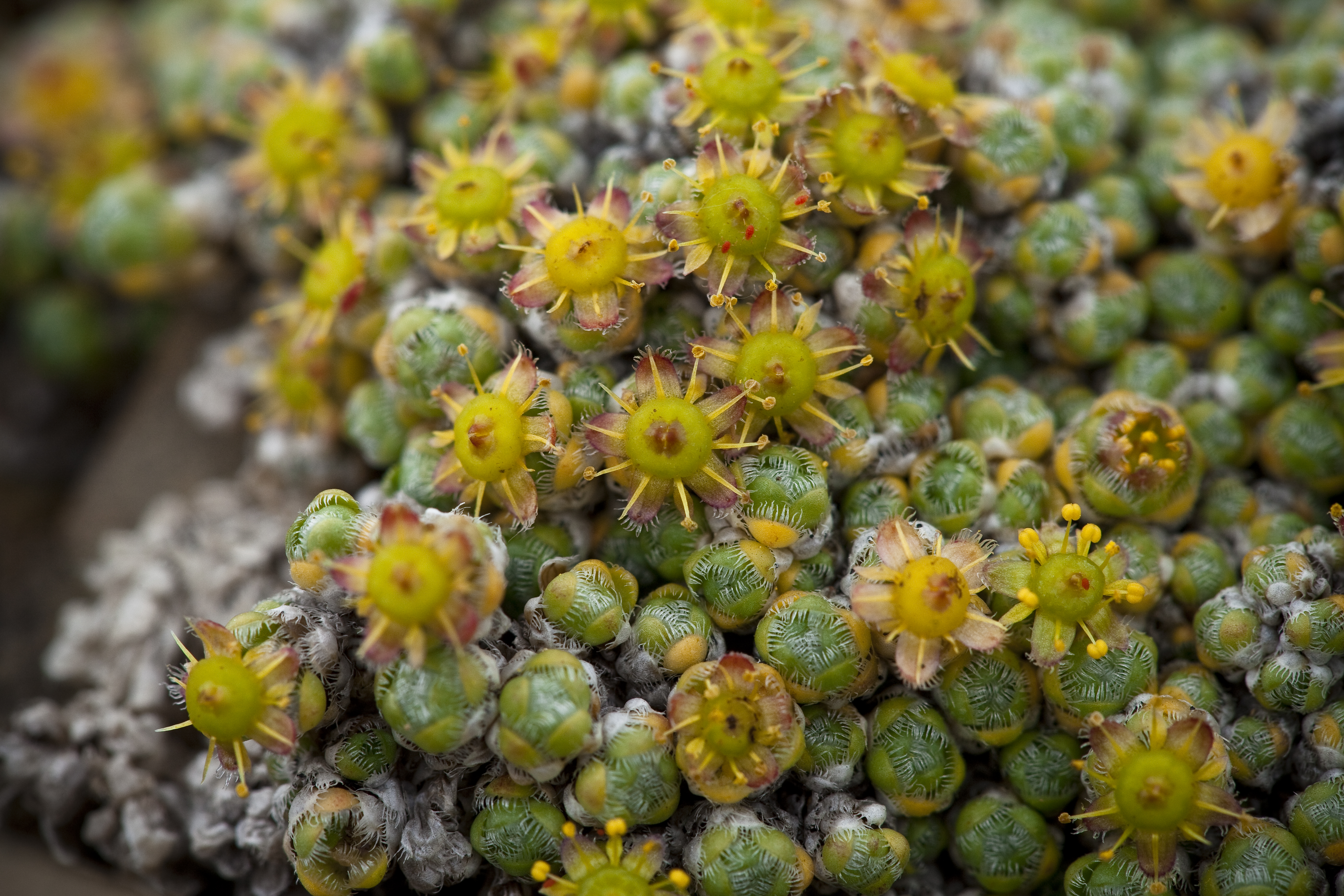 Saxifraga eschscholtzii by Jacob W. Frank